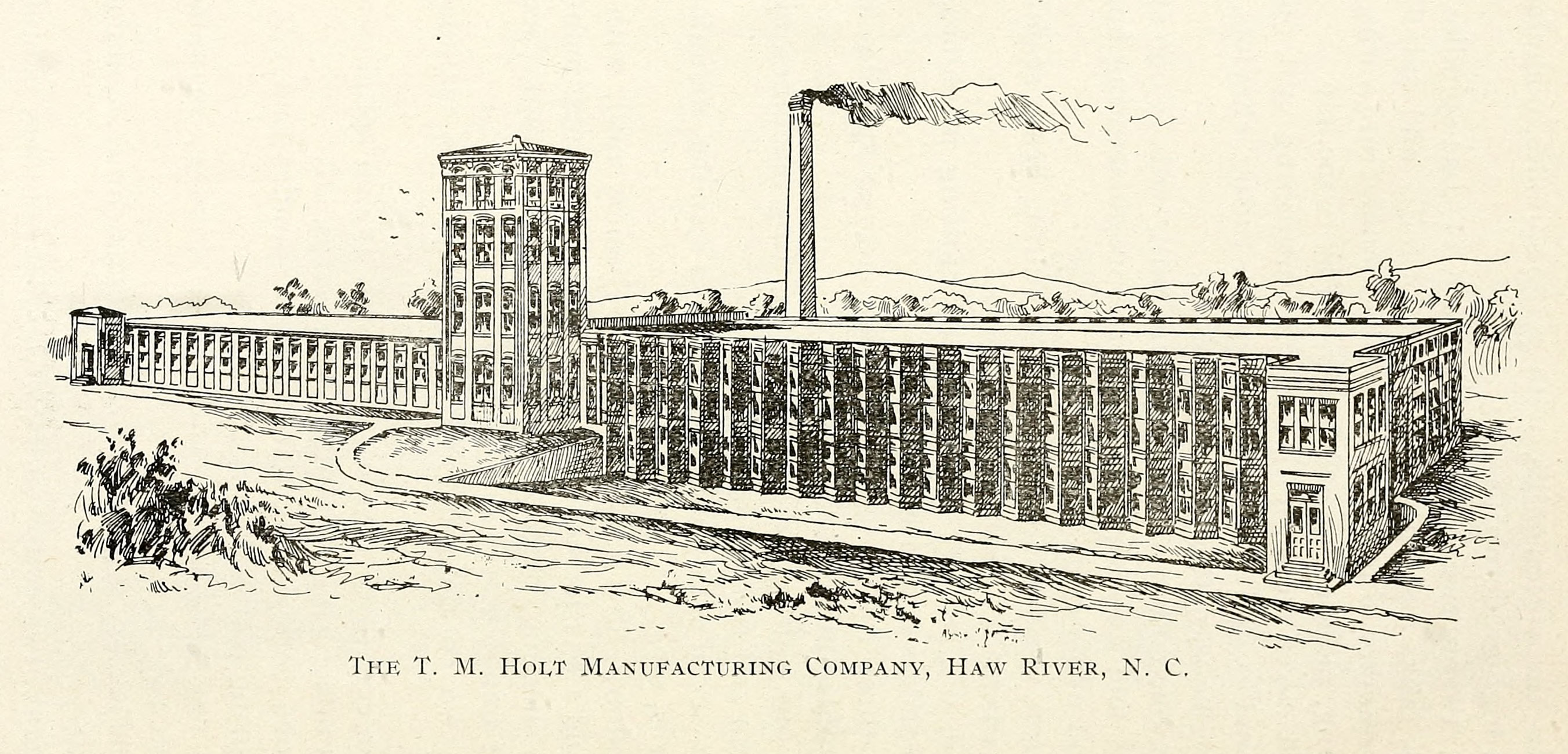 "T.M. Holt Manufacturing Company, Haw River, N.C.," print of the original Thomas Michael Holt Manufacturing Company cotton mill located at Haw River, Alamance County, North Carolina. Published in the 1897 Annual report of the Bureau of Labor Statistics of the State of North Carolina, page 20. Flickr image courtesy of the Government & Heritage Library, State Library of North Carolina.